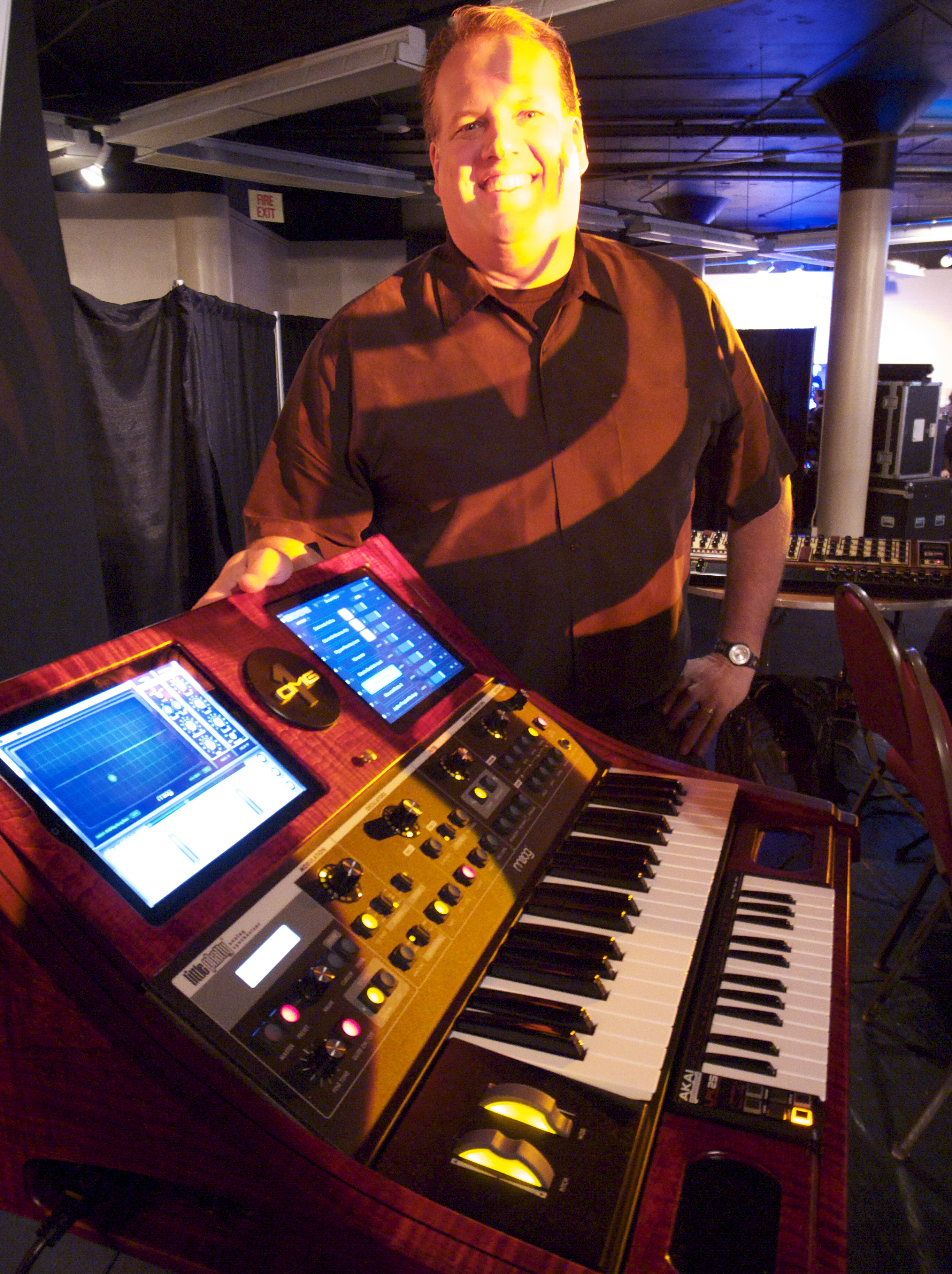 Spectrasonics OMG-1 - 2 iPads. 2 iPhones. a Mac mini. AND a Little Phatty. not to mention the gorgeous ebony housing!